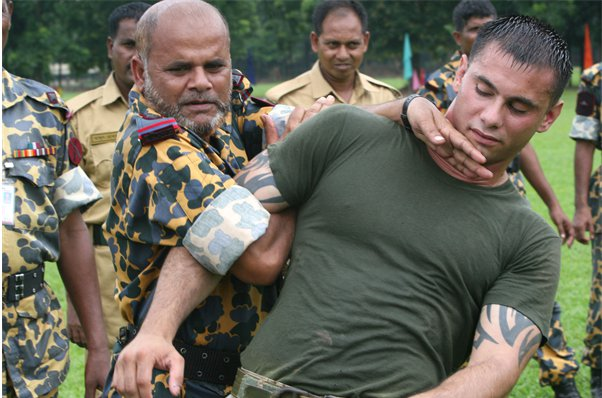 Bangladesh Rifles Senior Warrant Officer S. Damannan applies mechanical advantage control/hold two to Sgt. Corey Gonzalez July 13 during Non-Lethal Weapons Executive Seminar 2008 here. Damannan was a student attending the course. Gonzalez is an assistant anti-terrorism force protection instructor with III Marine Expeditionary Force's Special Operations Training Group.